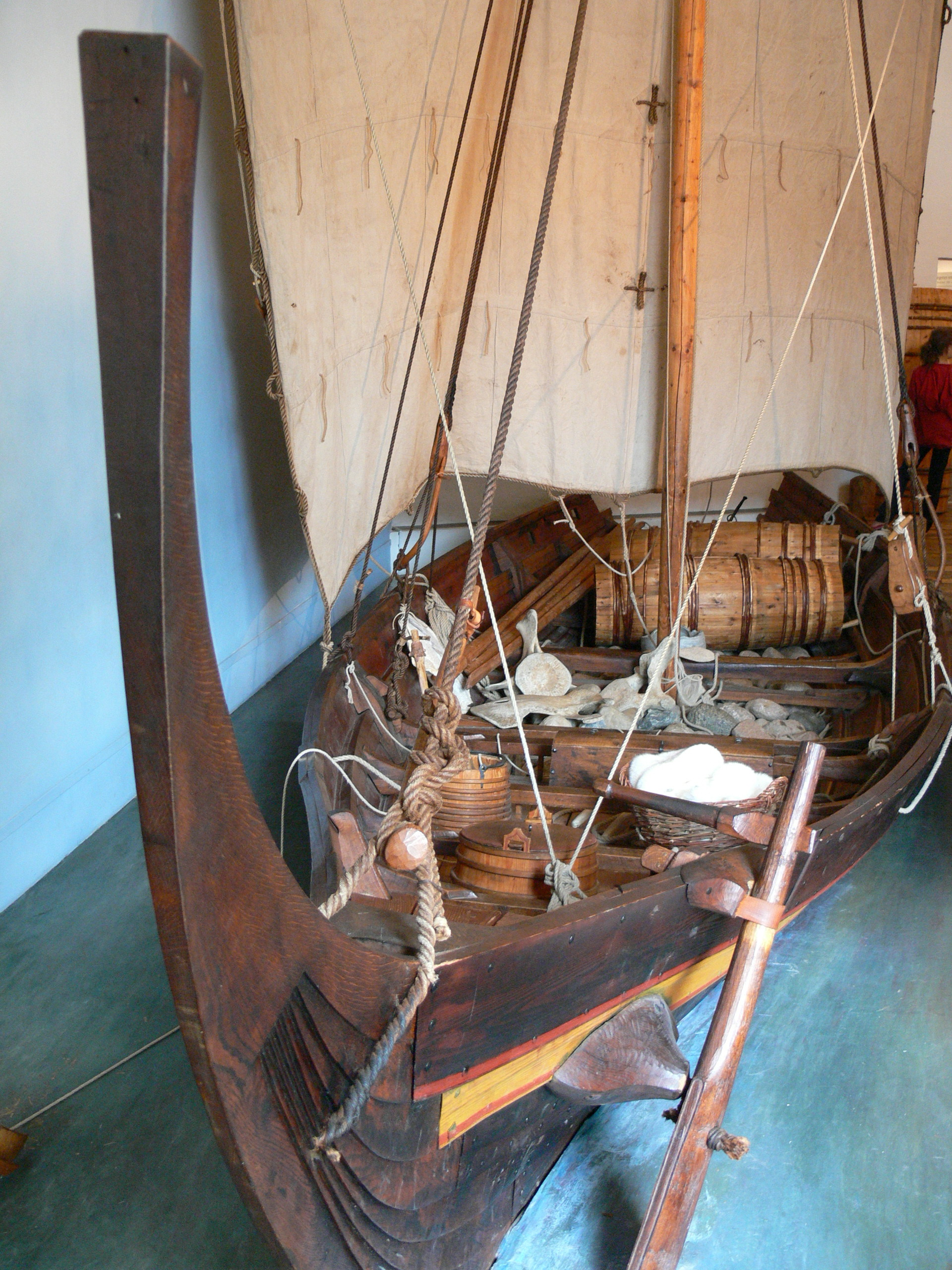 Ribe - Ribe Viking Museum. Modell of Viking age trade ship.